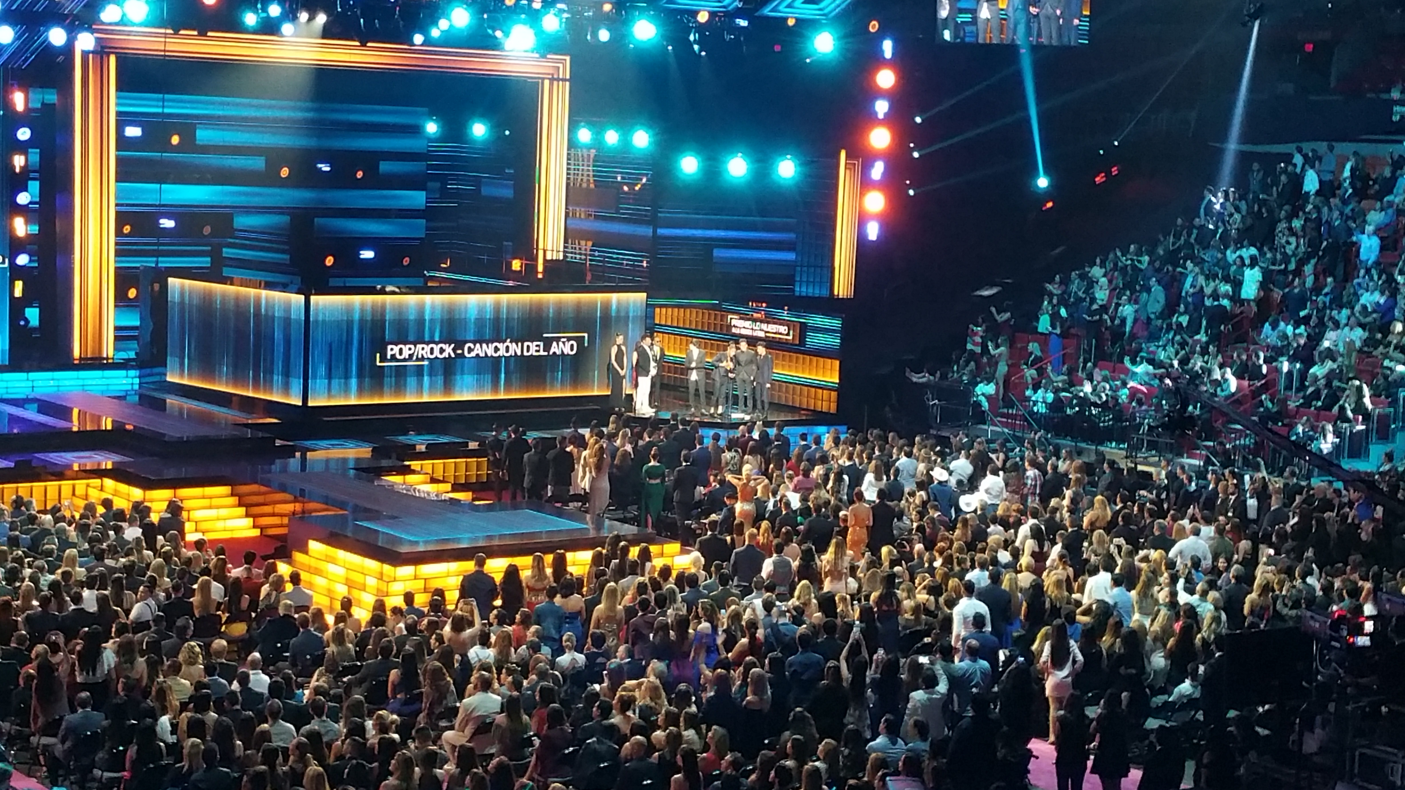 CNCO with Ricky Martin, at Lo Nuestro Awards 2017, American Airlines Arena, Miami, receiving award for "Tan Fácil", Pop/Rock Song of the Year.